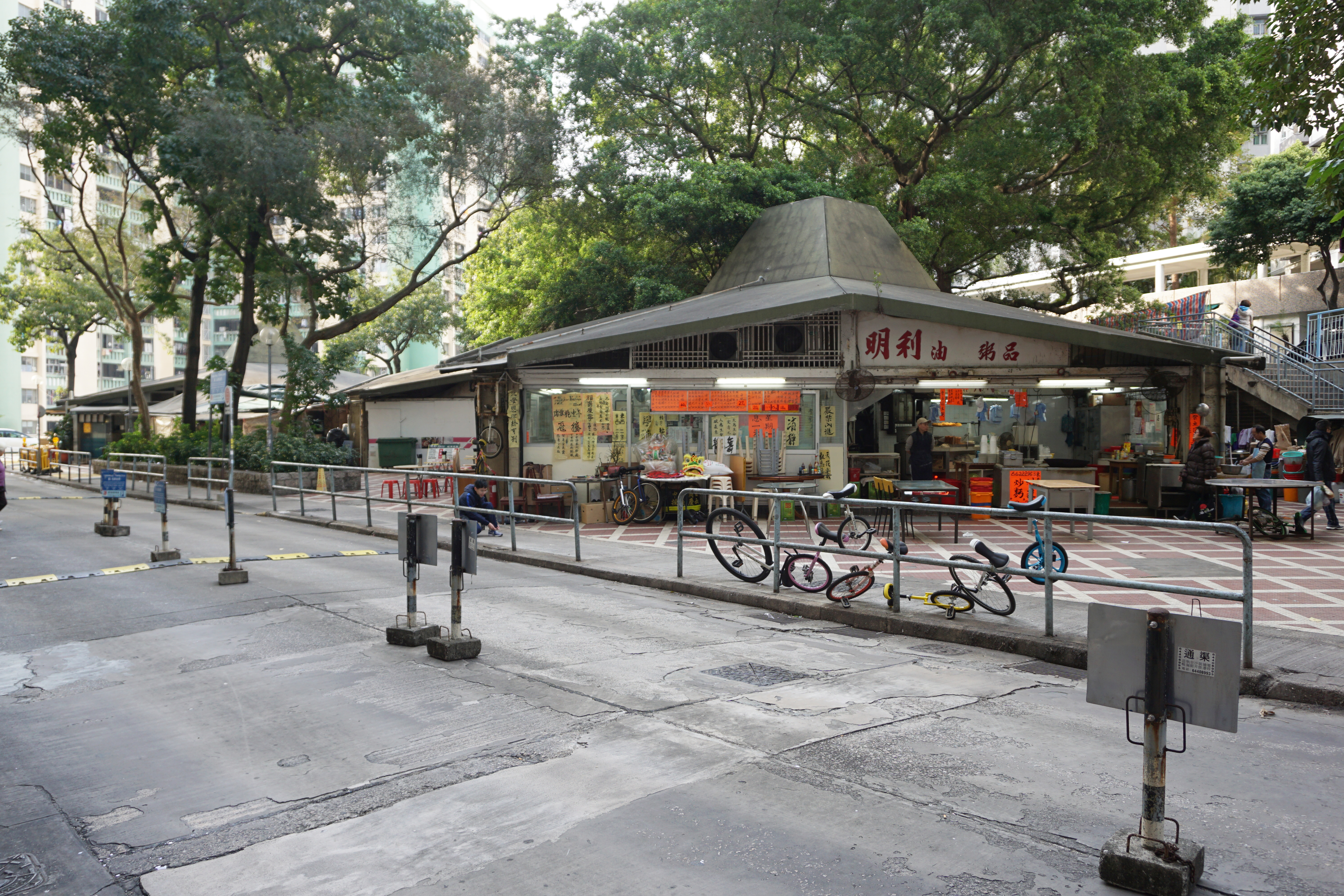 Oi Man Estate in Ho Man Tin, Hong Kong.